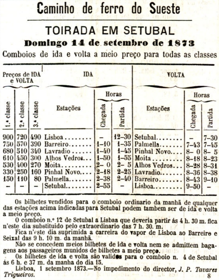 Advertisement of the Caminho de Ferro do Sueste (Portuguese Southeastern Railway) for special trains at reduced prices from Lisbon (boats to Barreiro) to Setúbal, for a bullfighting event. This image was published on the Diario Illustrado newspaper No. 401, of 12th September 1873, and scanned by the Biblioteca Nacional de Portugal.